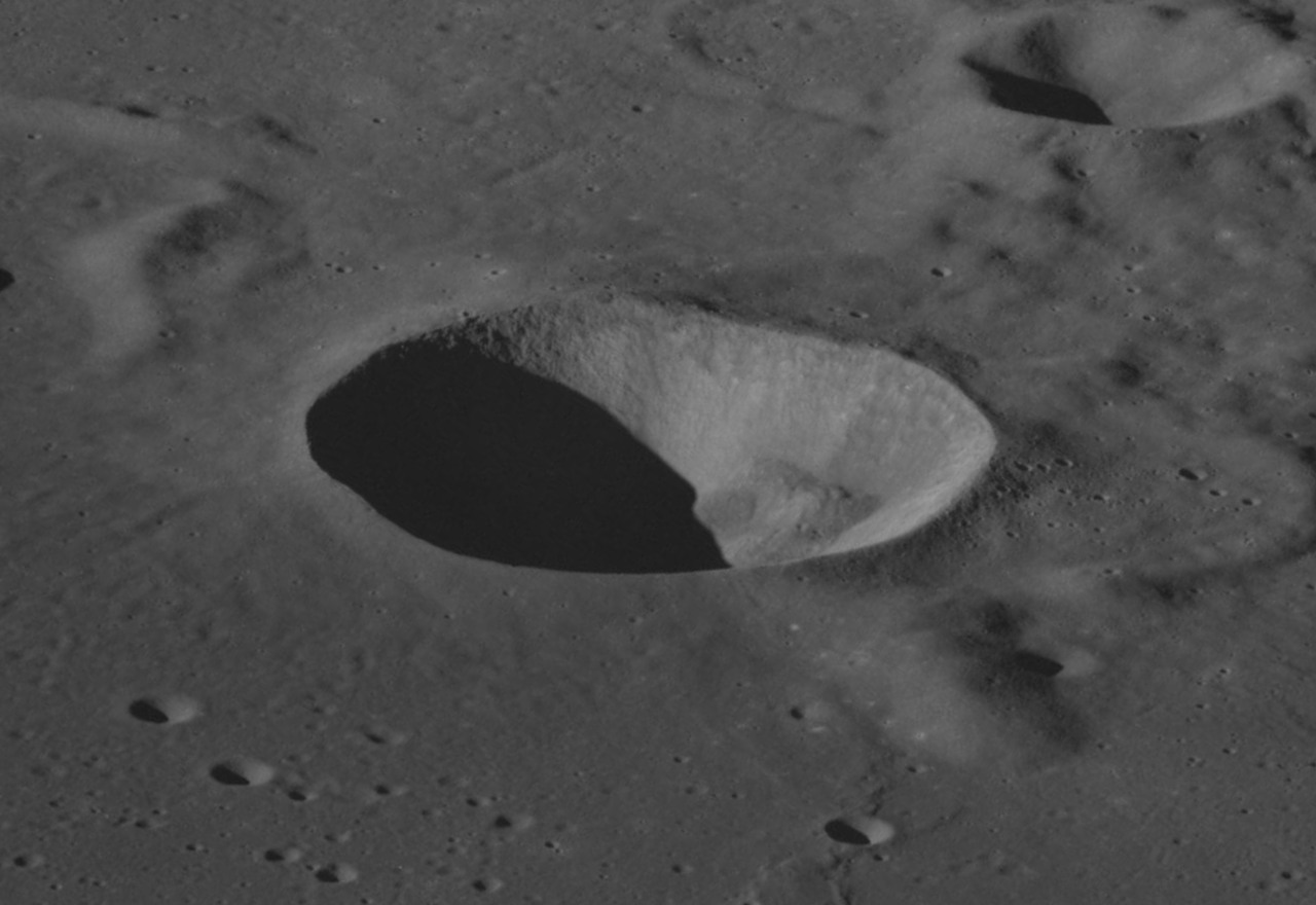 Oblique view of Bellot crater, on the moon, facing south.